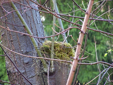 Bird nest